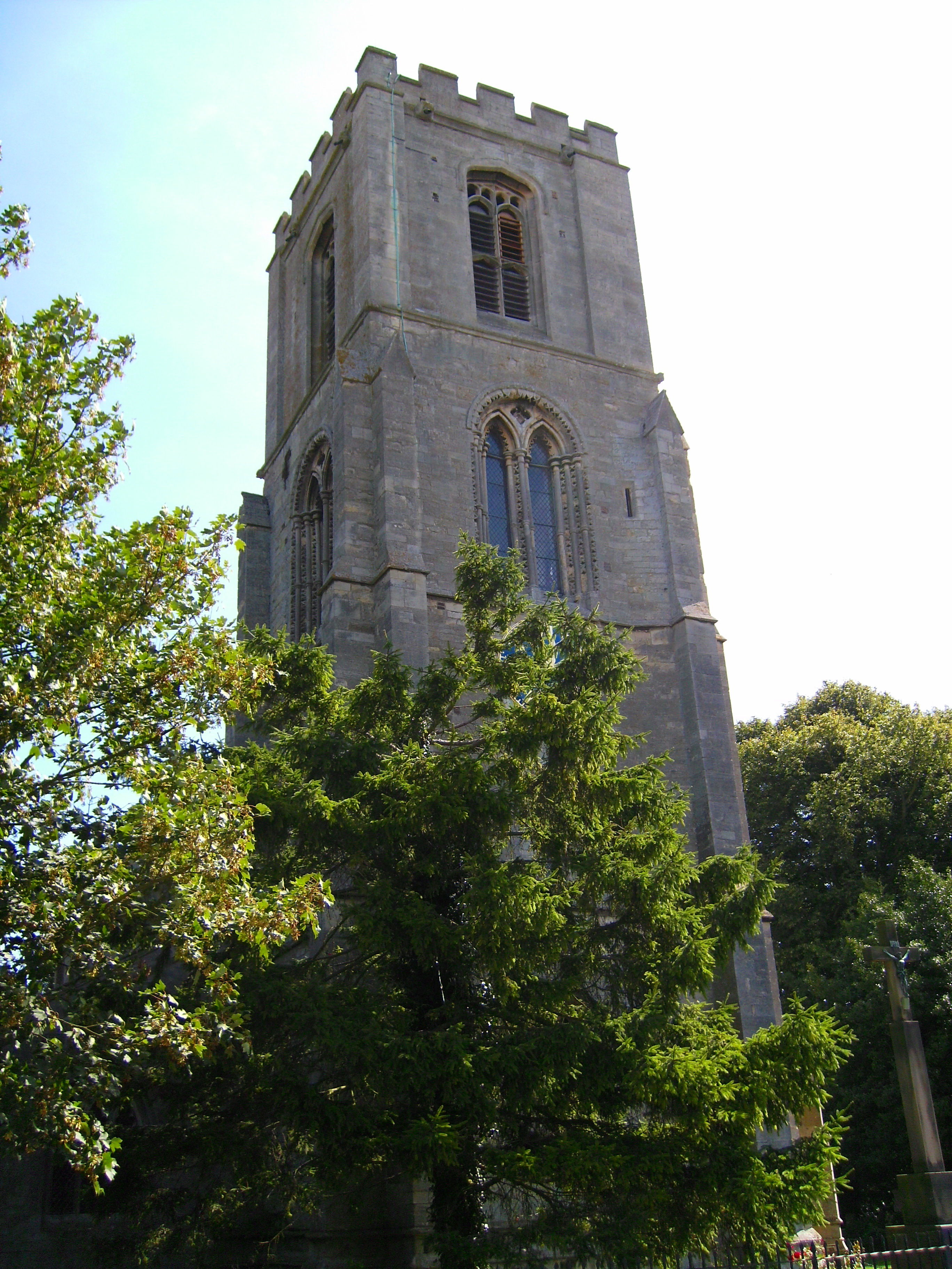 Western tower, St Margaret's church, Sibsey, Lincolnshire, UK